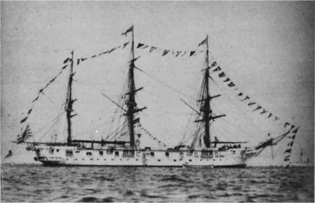 Imperial Japanese Navy corvette Tsukuba, known previously as HMS Malacca. Photo taken after being converted to a training ship.